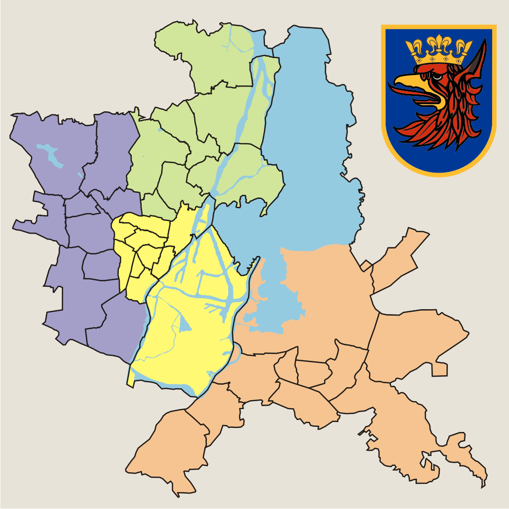 Quarters of Szczecin in 2010